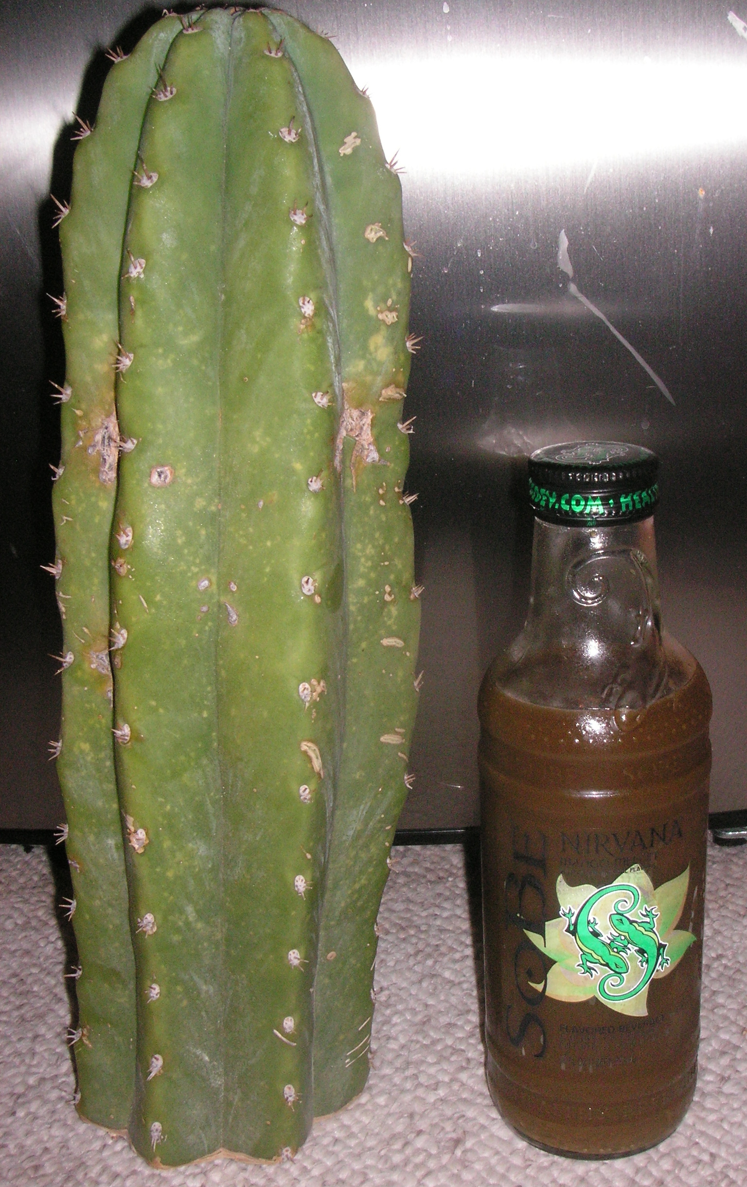 San Pedro cactus next to a brew of another cutting.